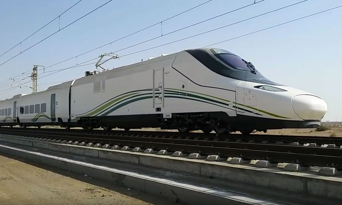 View of Talgo 350 for SRO Haramain High Speed Rail